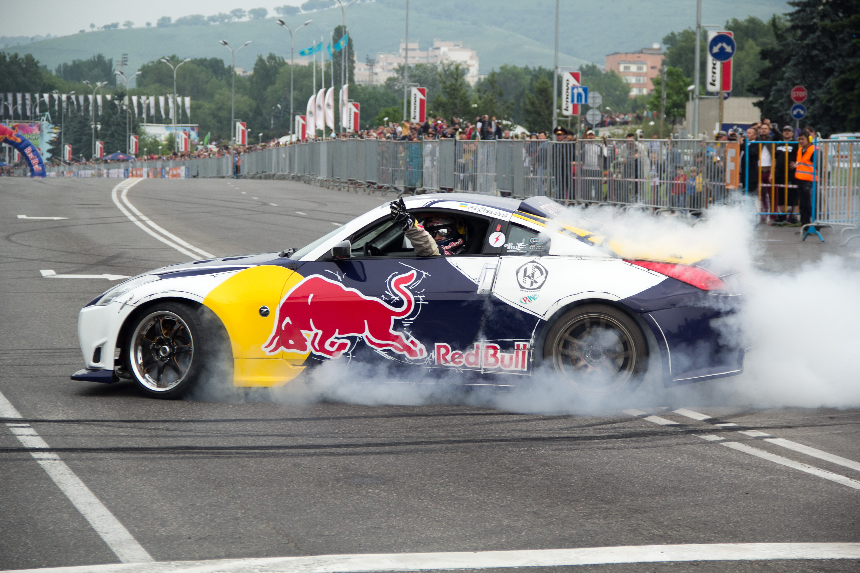 Aleksandr Grinchuk drives Nissan 350z at Red Bull Racing Formula One Show. Almaty, Kazakhstan, June 1, 2014